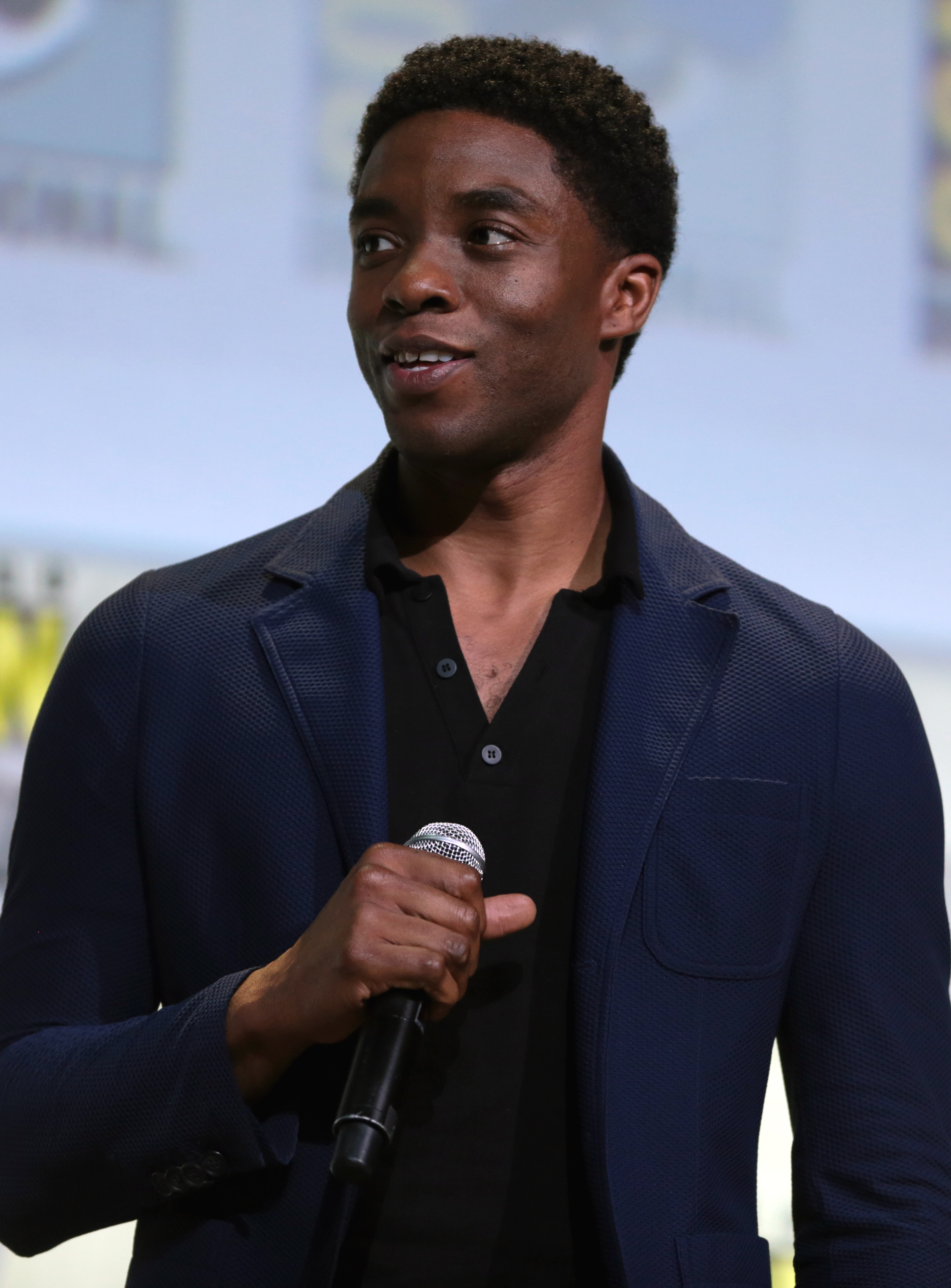 Chadwick Boseman speaking at the 2016 San Diego Comic Con International, for "Black Panther", at the San Diego Convention Center in San Diego, California.